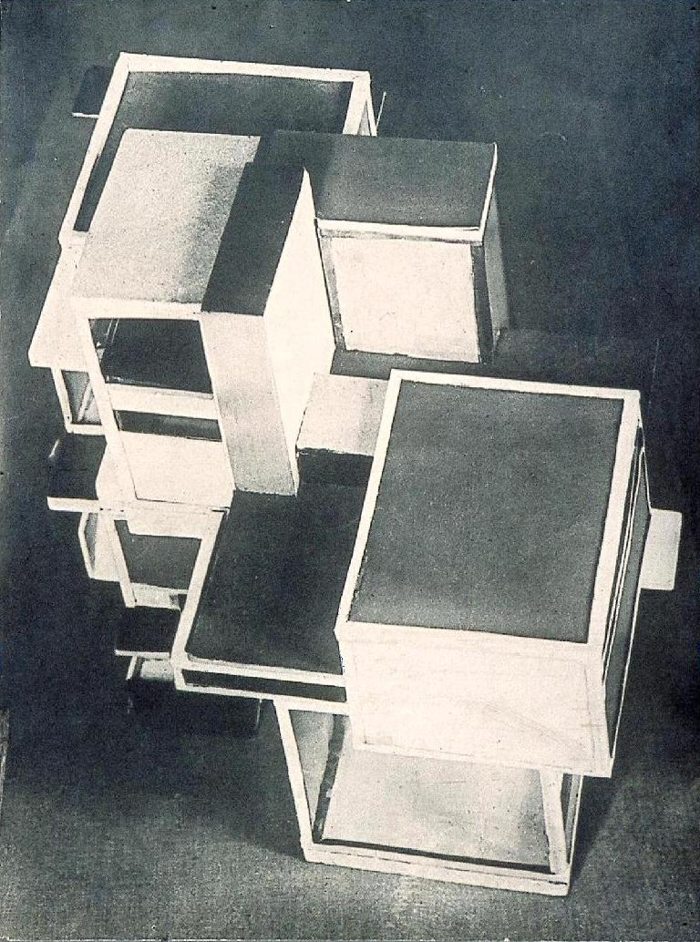 Theo van Doesburg. Model Maison d'Artiste. 1923. Photo. 37 × 28 cm. The Hague, Van Doesburg Archive (inv.nr. AB5132).